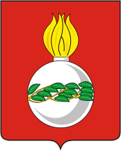 Chapaevsk (Samara oblast), coat of arms